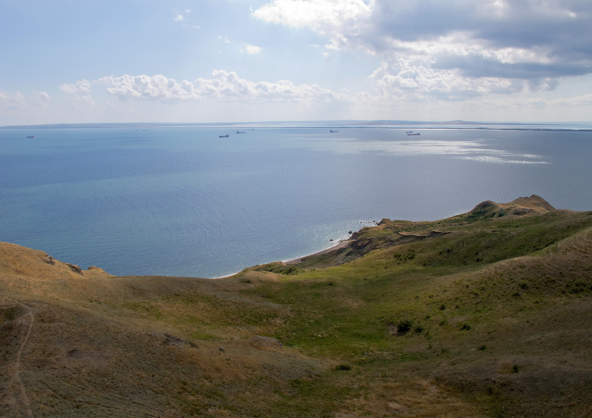 View of the Strait of Kerch — from the tower of Yenikalsky Lighthouse at Cape Fonar. Located in Kerch municipality, Crimea.